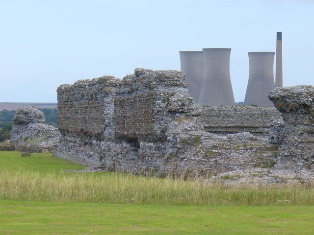 Sizeable remains of the walls bounding the Roman Richborough Castle. This was built at the south entrance to the Wantsum channel. Its twin, Regulbium, was built at the northern channel entrance - present day Reculver. Beyond the walls are the cooling towers of the former Richborough Power Station.